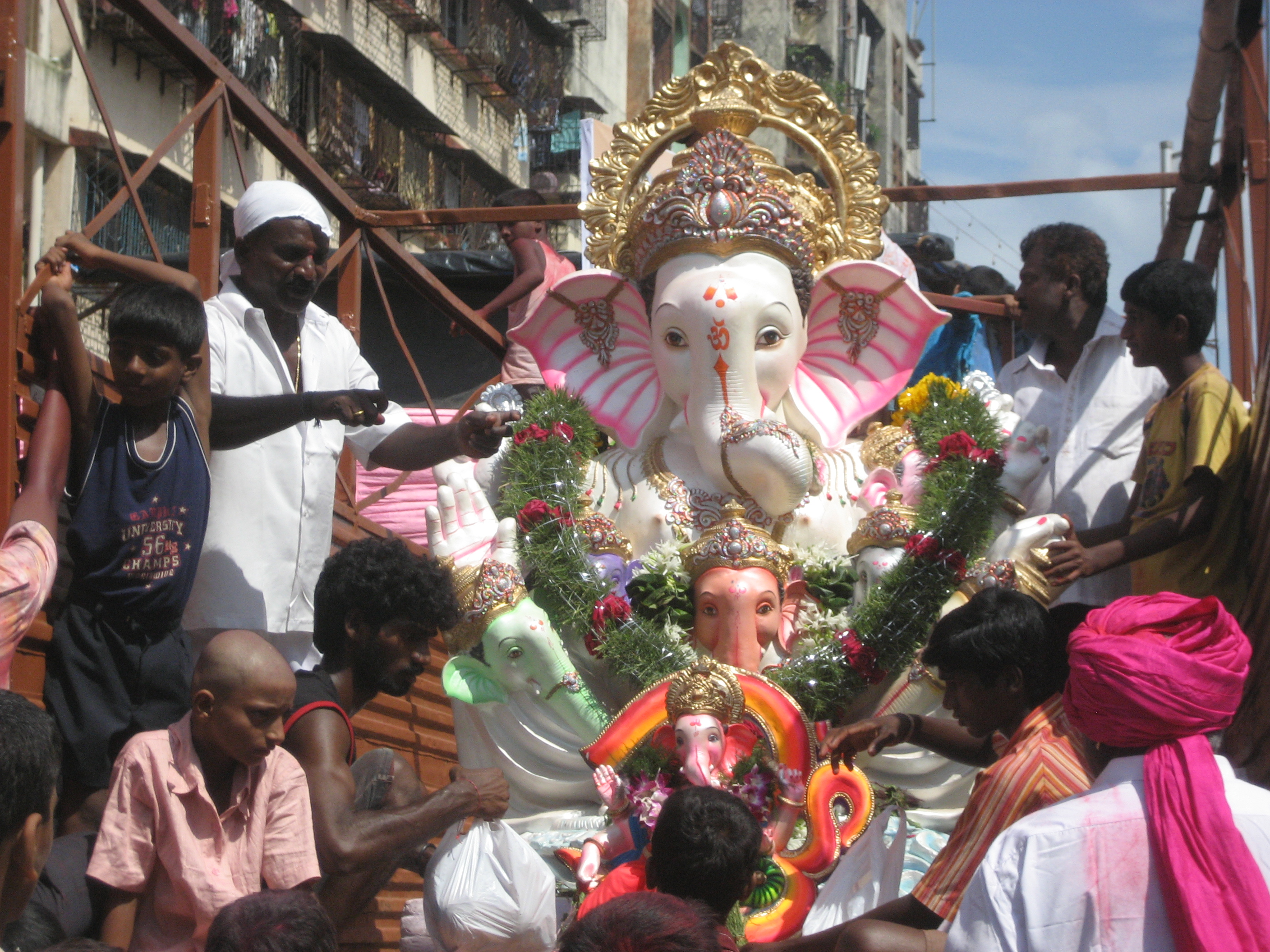 One of the last pictures I took on my trip! Driving to the airport or to Swati's house last Saturday.